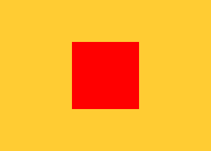 historical flag of Ilkhanate